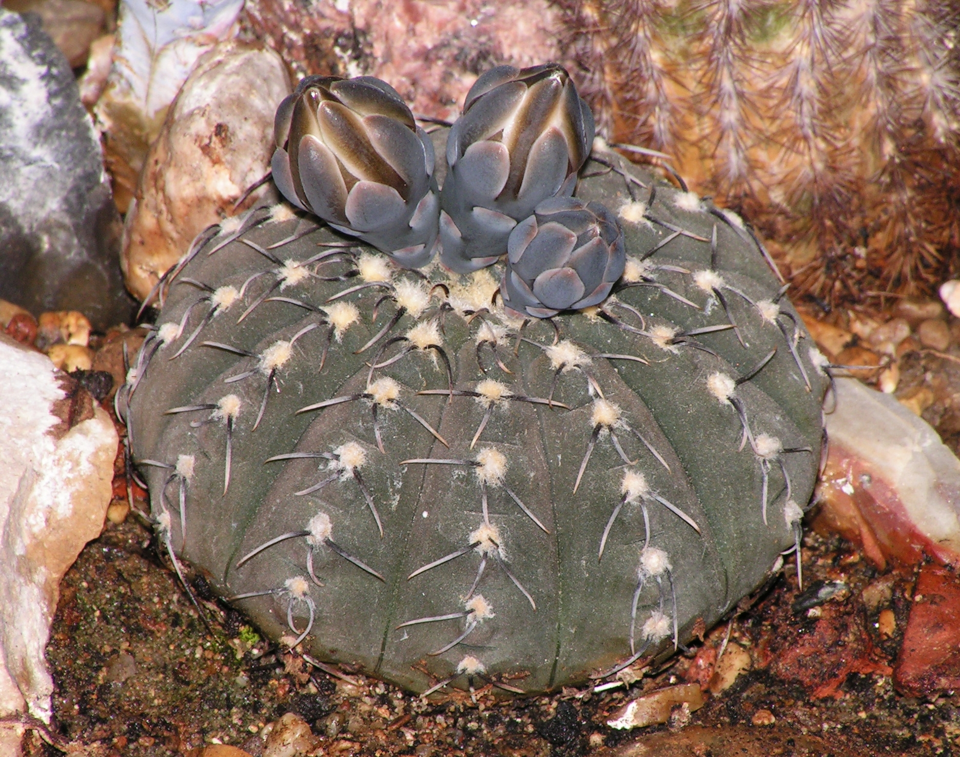 Gymnocalycium stellatum with buds. The age of the plant is appr. 35 years, its diameter is 7 cm, its height is 3 cm.